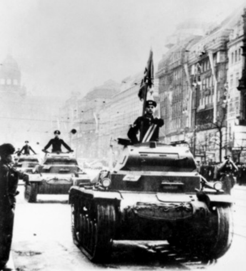 Original caption: "Prague, Czechoslovakia. c.1939-03. A parade of German Panzerkampfwagen II light tanks is watched by crowds lining the street. Note the twin machine gun turret on the tanks."